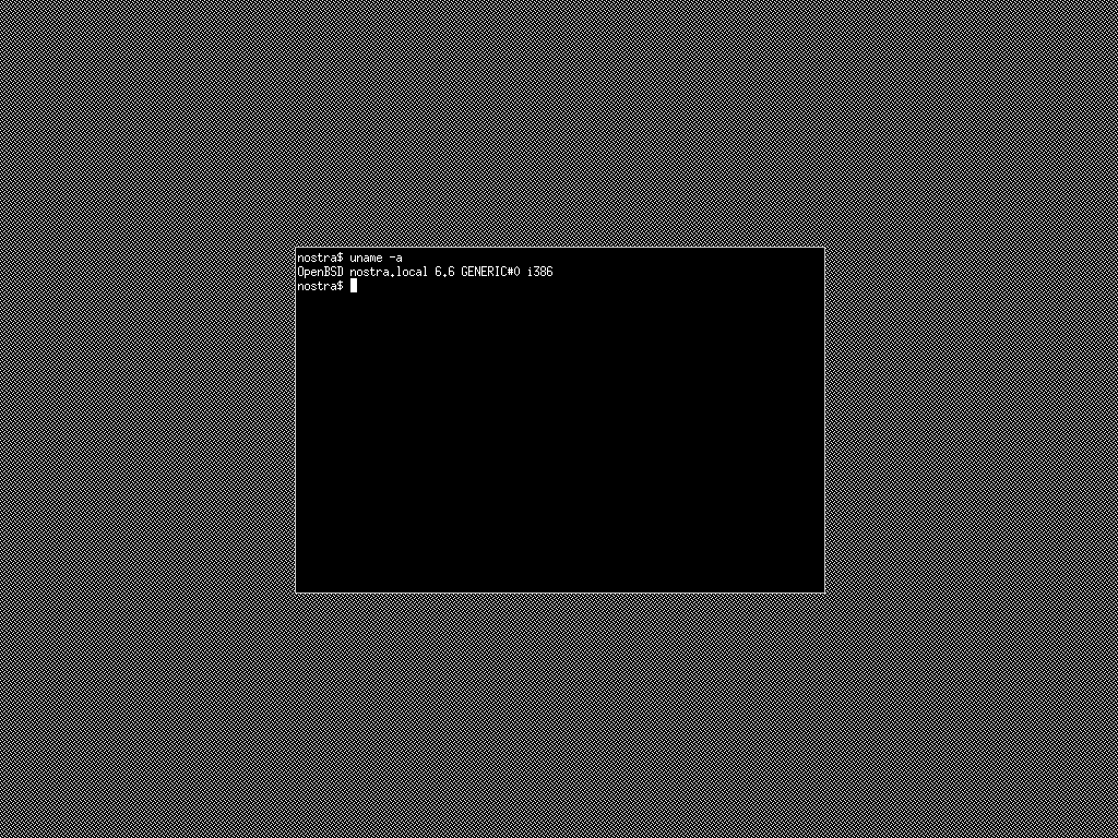 OpenBSD 6.6 running and cwm windowmanager. Screenshot taken with scrot. Running command uname.